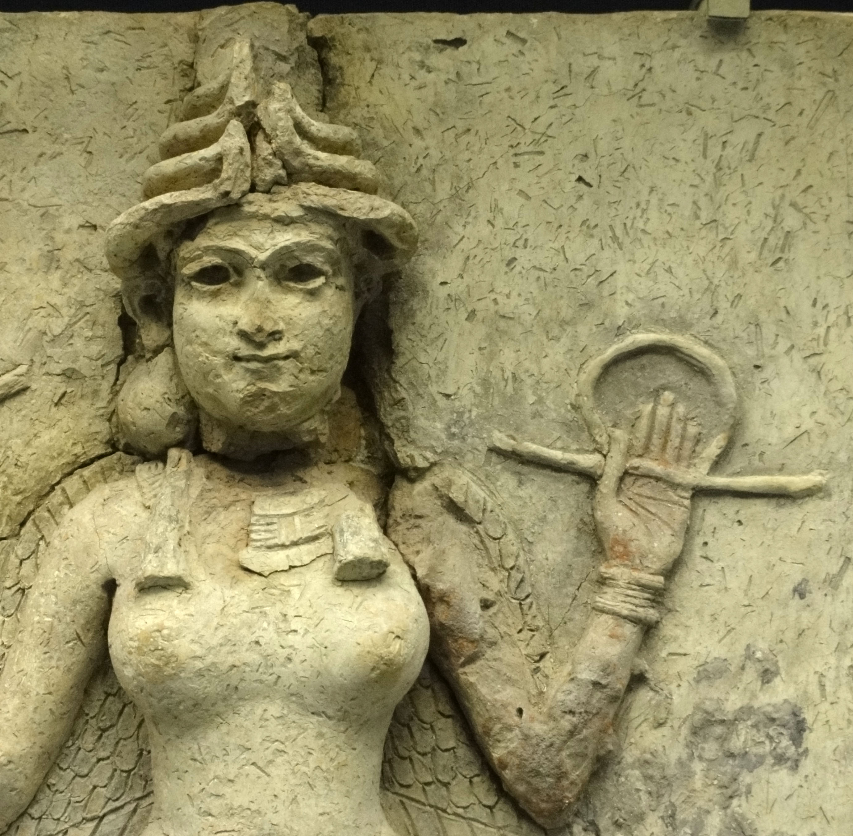 Detail of female bust of Burney Relief.